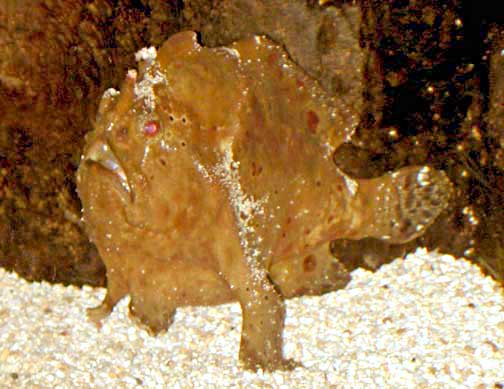 Antennarius commersoni (Commerson's frogfish)